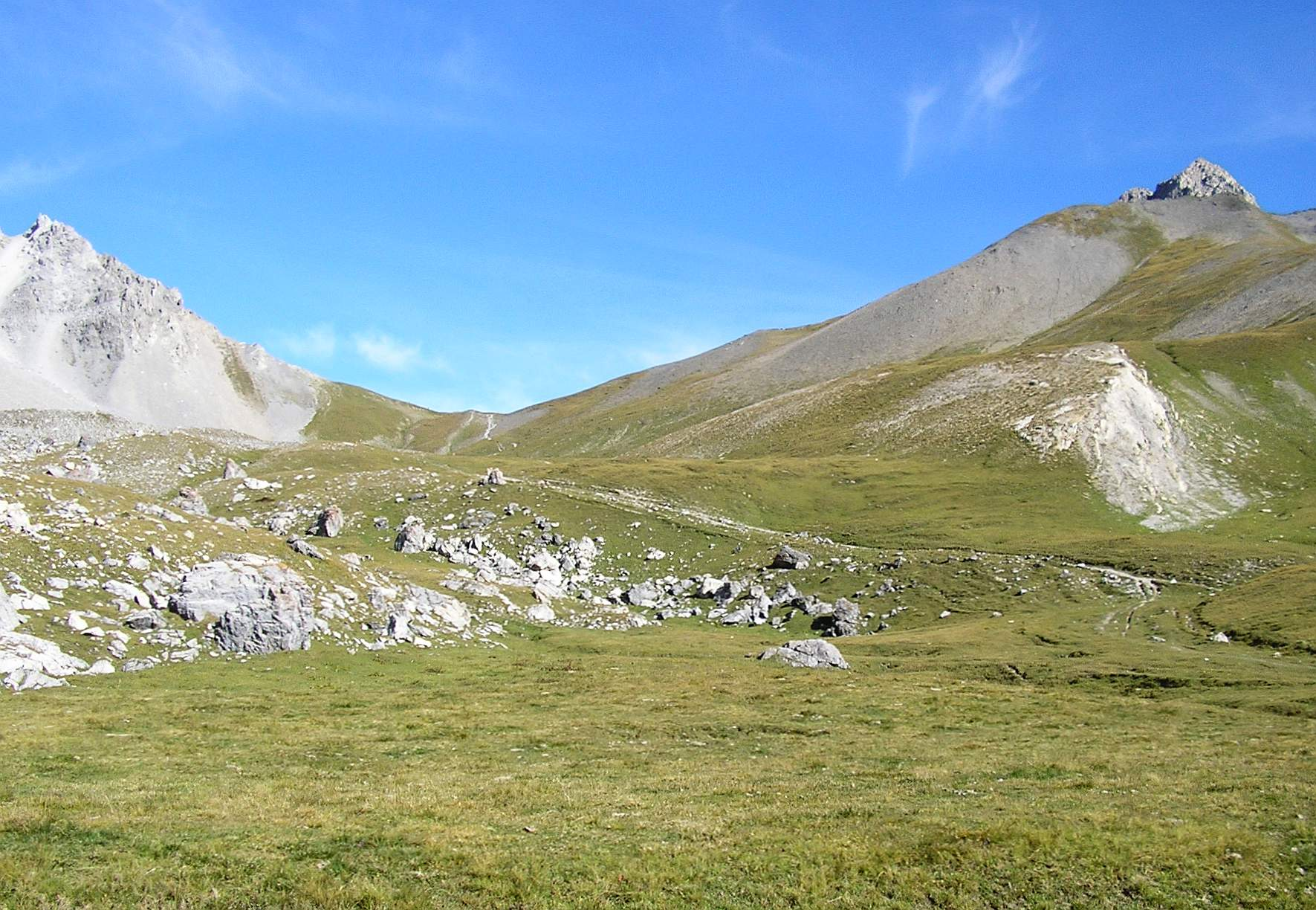 Rho pass, Italian side (Cottian Alps, Italian/French border)